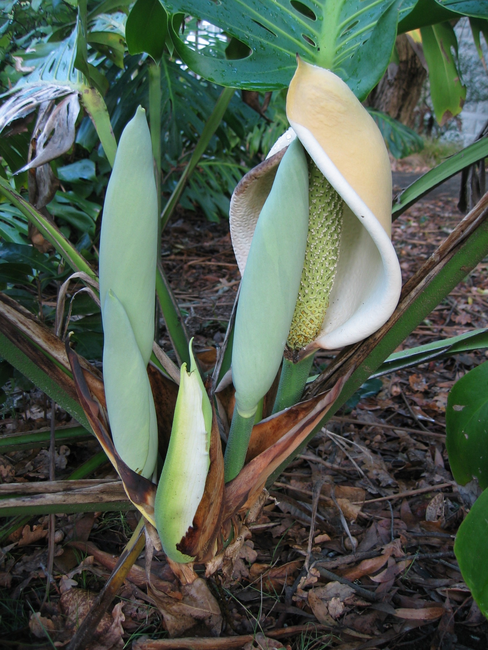 Flower and buds of Monstera deliciosa, in the grounds of Old Government House, Auckland.